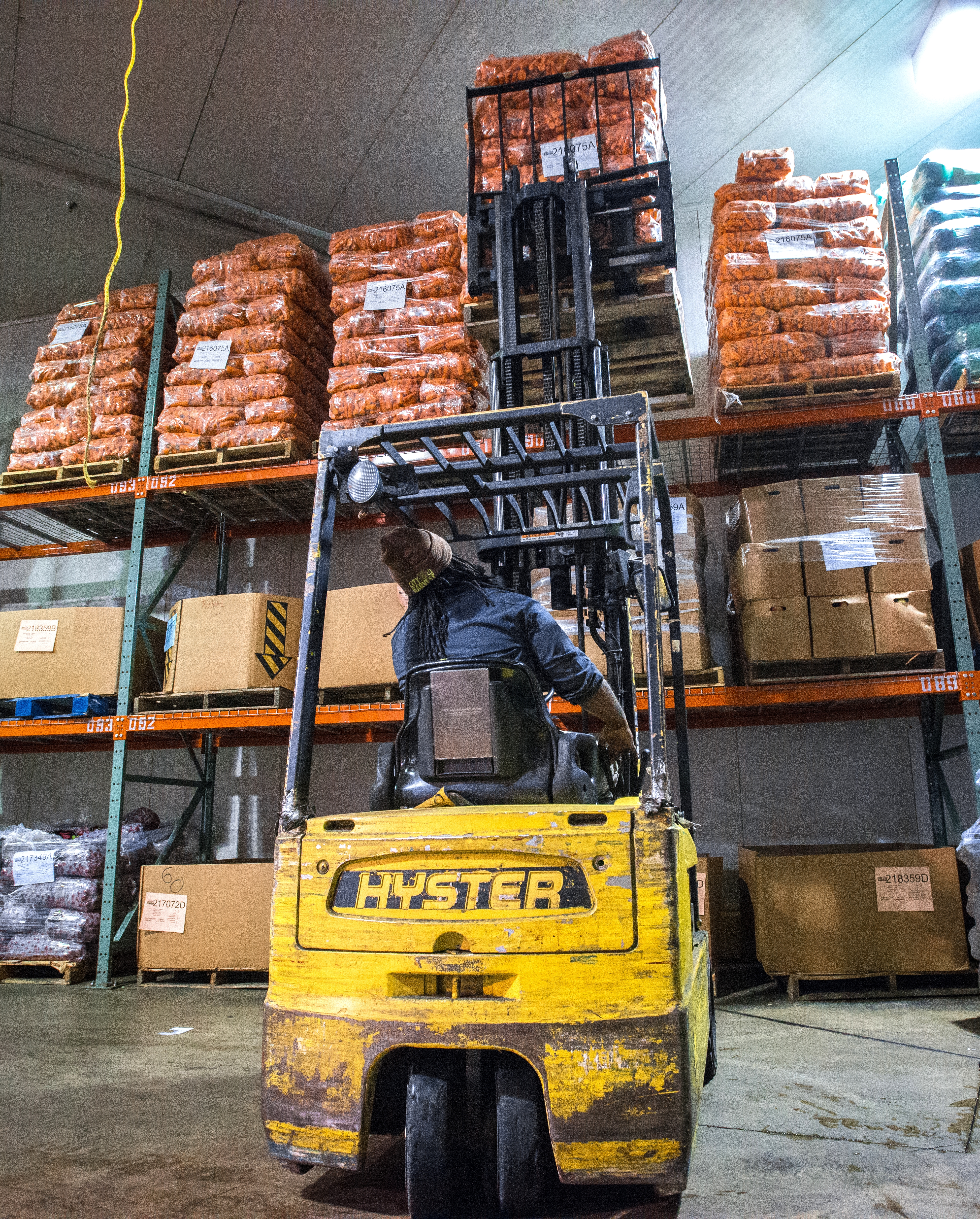 City Harvest Lead Distribution Center Associate Kareem Weekes at move rescued carrots with a forklift from refridgerated truck, through the warehouse and into a refridgerated room before U.S. Department of Agriculture (USDA) Secretary Tom Vilsack and U.S. Environmental Protection Agency (EPA) Acting Deputy Administrator Stan Meiberg join with private industry and charitable organizations represented by City Harvest Executive Director Jilly Stephens, Food Marketing Institute President and CEO Leslie Sarasin; and Feeding America Chief Supply Chain Officer Bill Thomas, to announce the United States’ first food waste reduction goals at City Harvest’s food recycling facility in Long Island City, N.Y., on Wednesday, September 16, 2015. The announcement occurs just one week before world leaders begin to gather at the United Nations General Assembly in New York to address sustainable development practices and goals, including sustainable production and consumption. City Harvest rescues excess food using a fleet of 19 refrigerated trucks, three cargo bikes, over 150 full-time employees, and more than 8,000 volunteers. In fiscal year 2015, they will collect 50 million pounds of food, greater than the total amount of food collected in its first 14 years combined. Seventy-five percent of this total will be comprised of nutrient dense foods, including fresh produce, meat and dairy. - See more at: U.S. Food Waste Challenge. Beginning in August 2014, food banks across the country competed to see who could sign up the most food donors to the U.S. Food Waste Challenge. From among the 200 food banks in the Feeding America network, the champion was City Harvest for signing up 114 donors to the Challenge. USDA Photo by Lance Cheung.